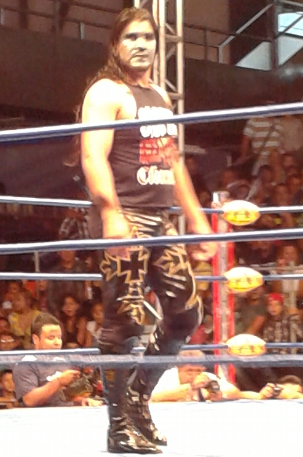 Dark Ozz during the 2012 ¿Quién Pinta para la Corona? held by Asistencia Asesoría y Administración on August 26, 2012 at Nave Lewis of Fundidora park in Monterrey, Nuevo León, Mexico.